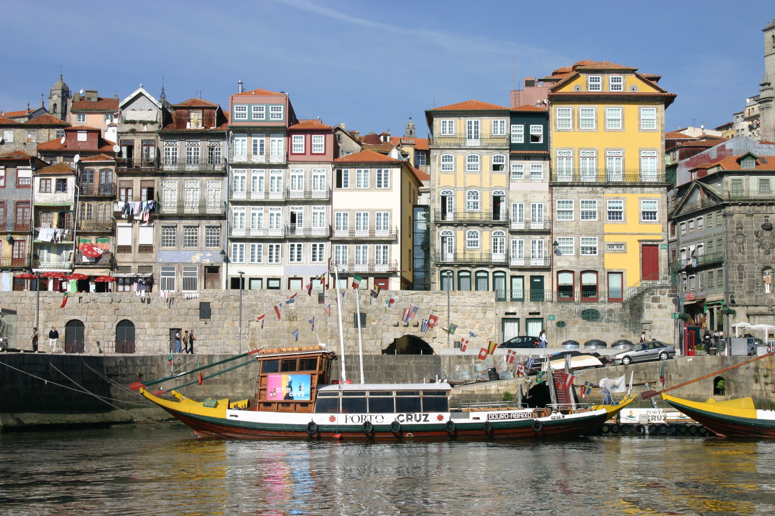 Ribeira do Porto seen from Vila Nova de Gaia's docks.